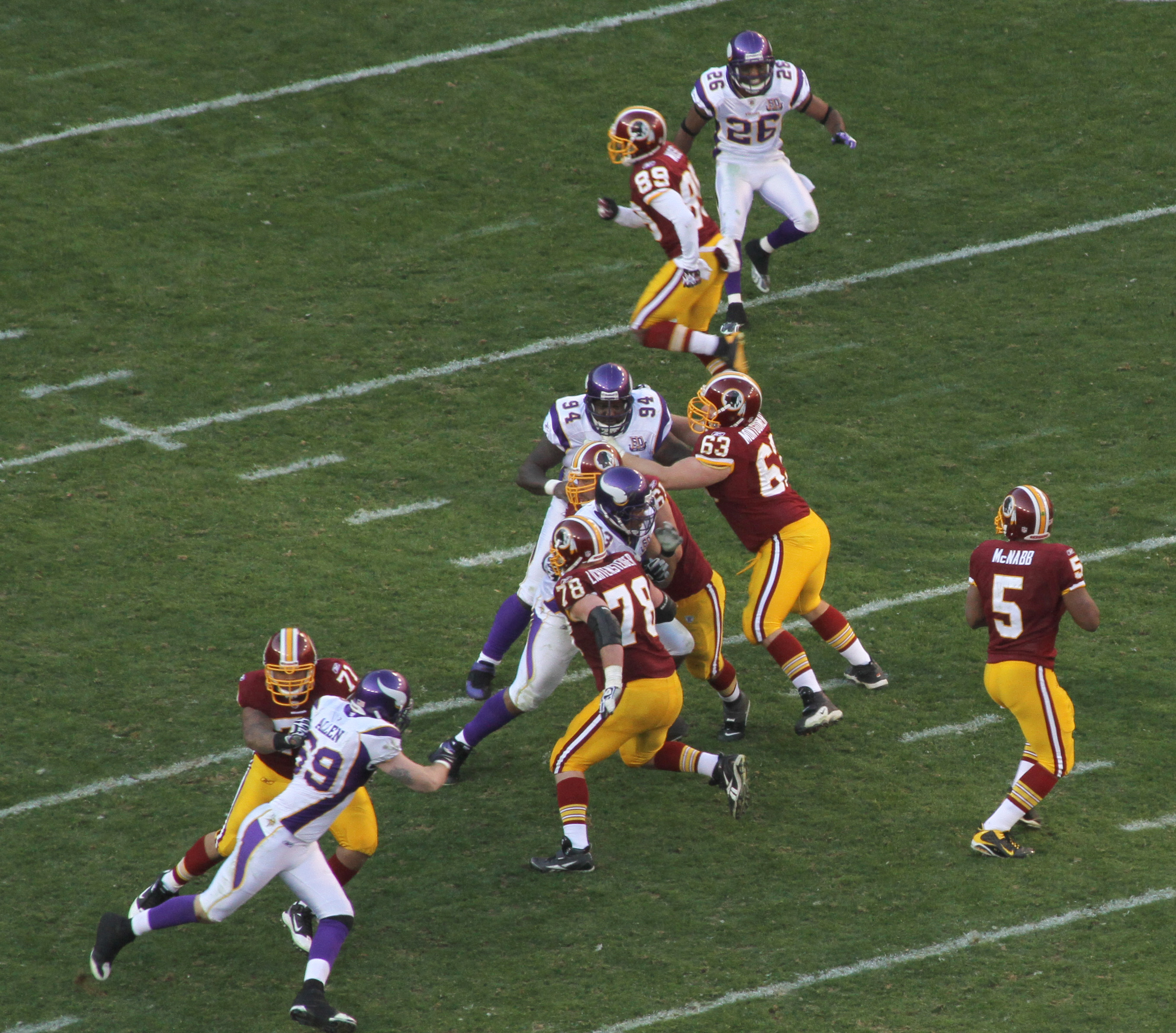 Donovan McNabb, quarterback for Washington Redskins, drops back to pass the ball.